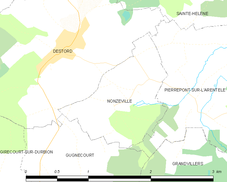 Map of French municipality Nonzeville